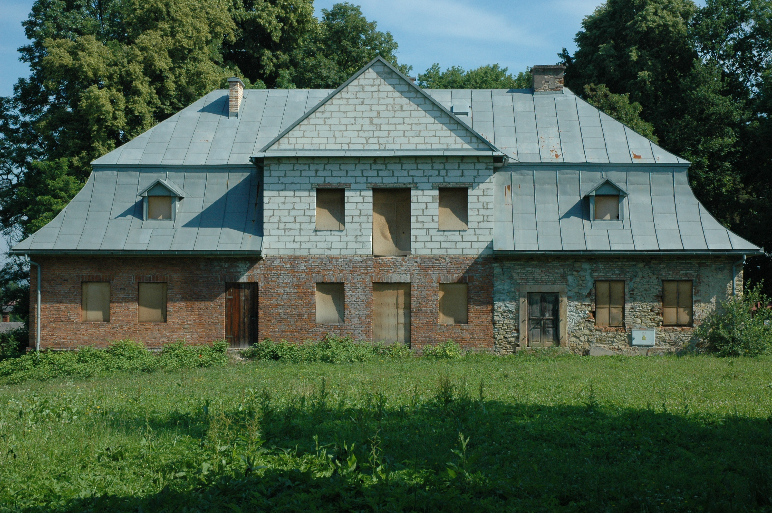 Former Manor house